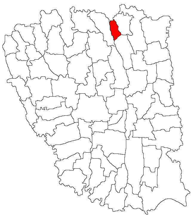 Limits of Radesti Commune in Galati County